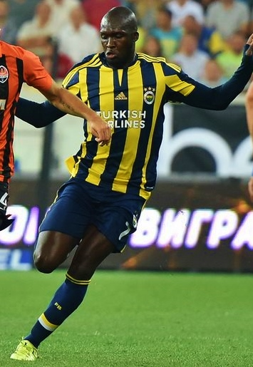 Moussa Sow